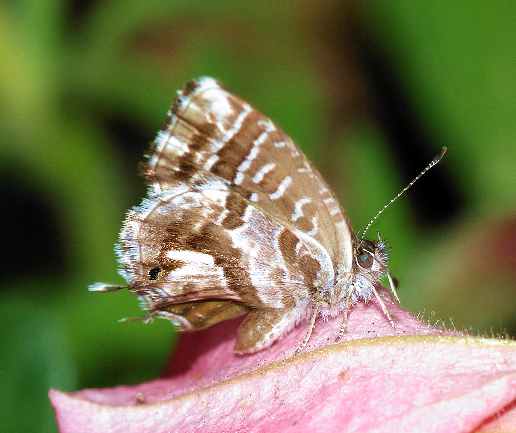 Butterfly resting (Cacyreus marshalli)